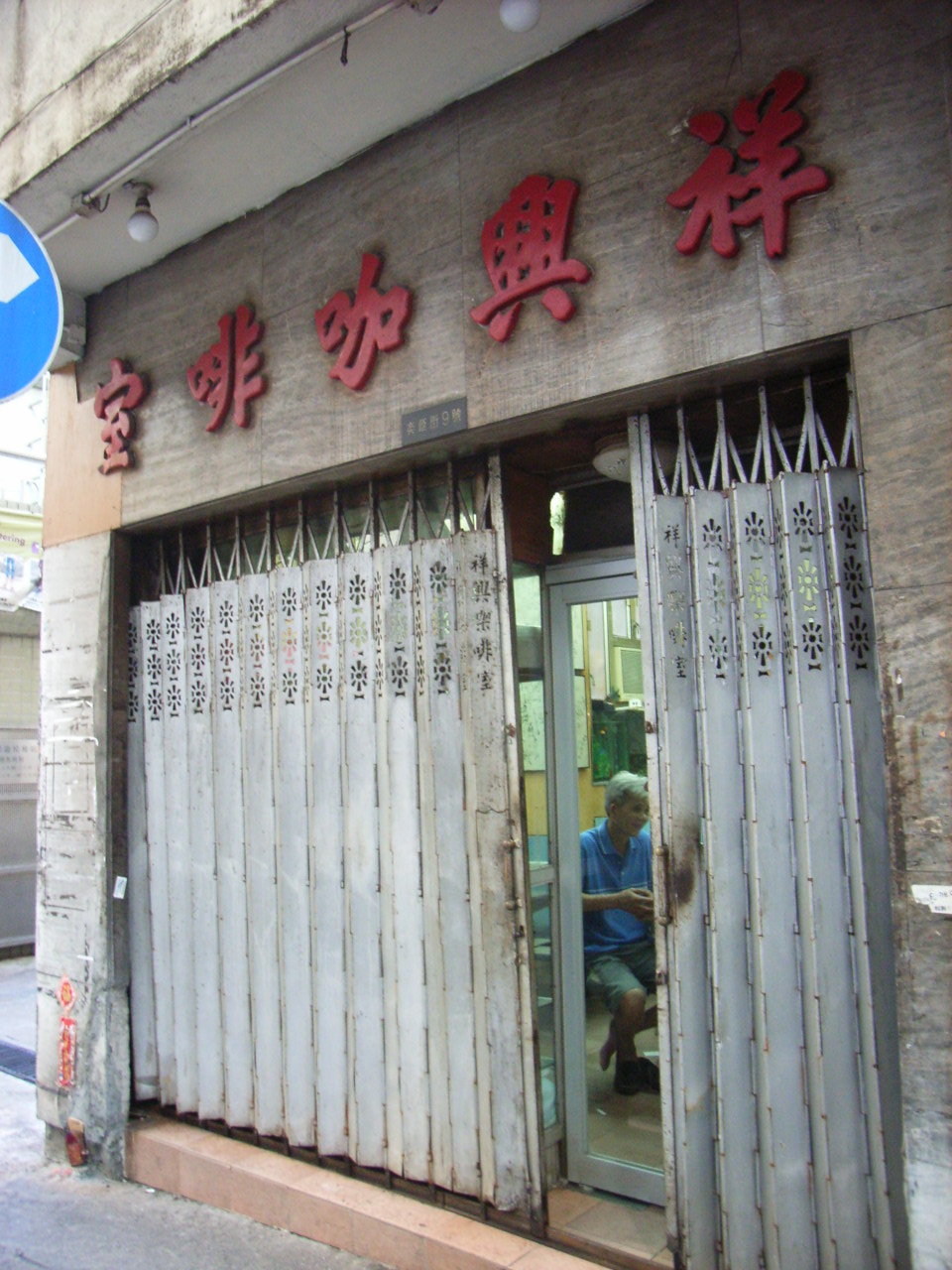 祥興咖啡室, 位於香港zh:跑馬地zh:奕蔭街9號 Yik Yam Street, Happy Valley, Hong Kong Author: BEVERLYSHEN